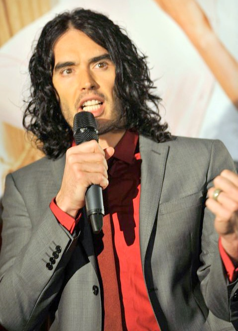 Arthur Russell Brand